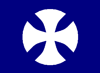 Union Army XVI Corps, Military Division of West Mississippi, 2nd Division Badge